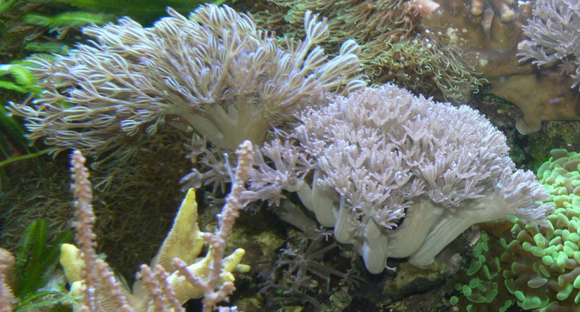 two species of softcorall genus Xenia